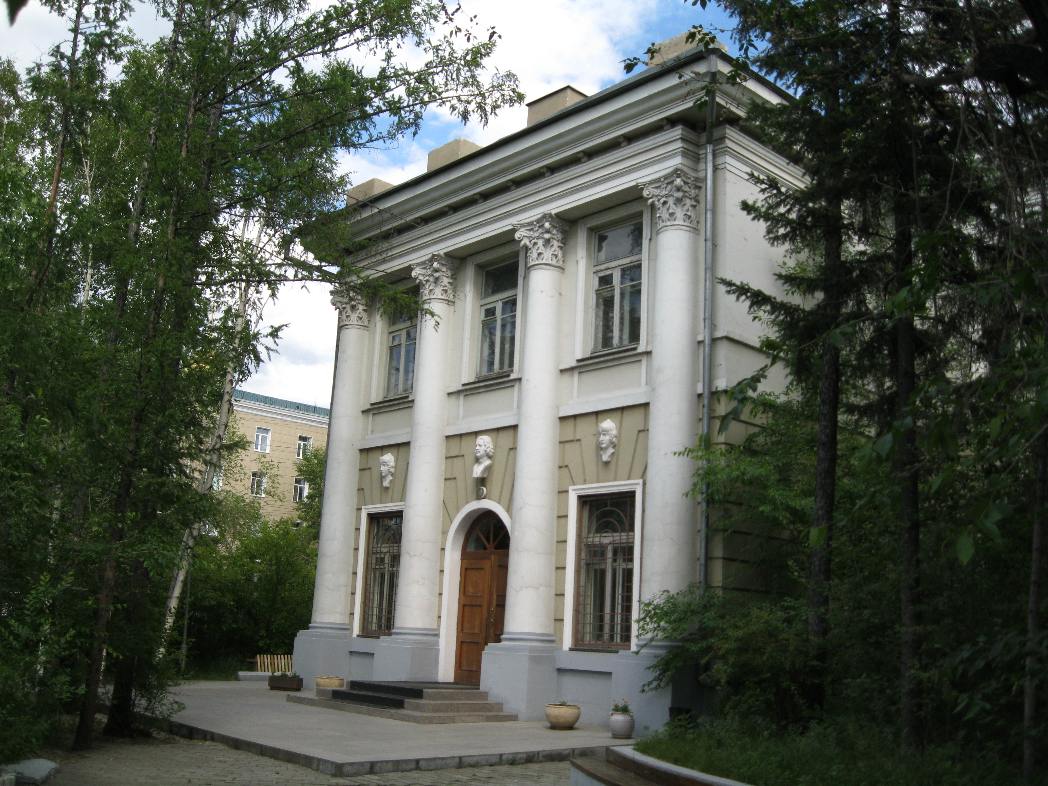 Transbaikalian State Regional historical museum in Chita, Russia